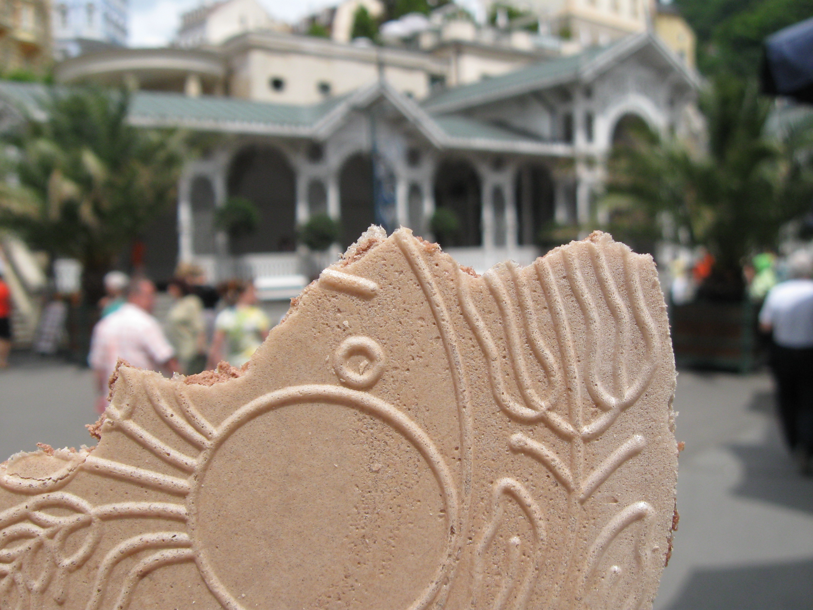 Karlovarské oplatky - traditional biscuits from Karlovy Vary spa, Czech Republic.